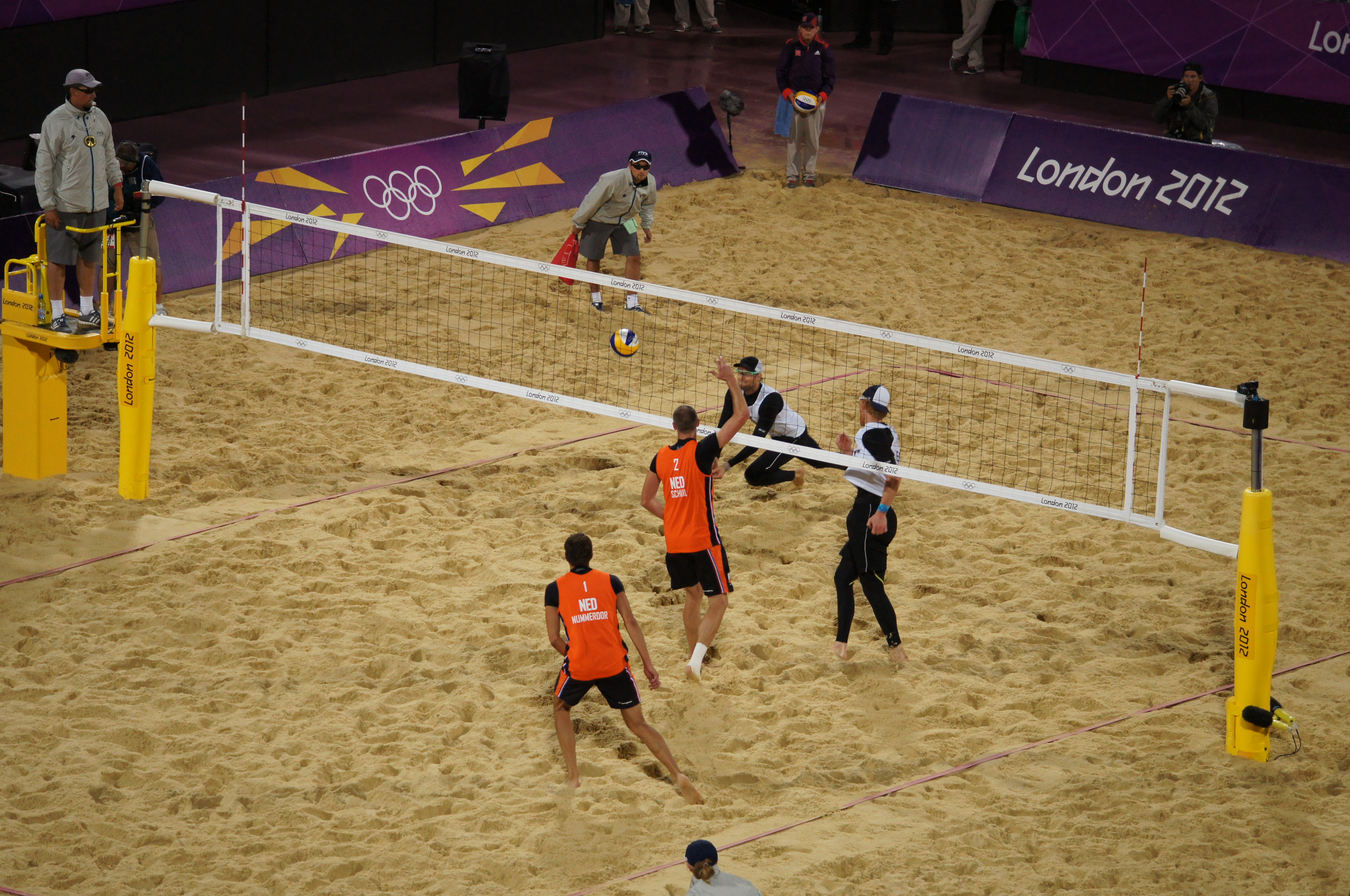 London 2012 Beach Volleyball Germany v Netherlands